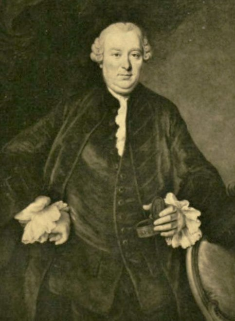 The Prussian merchant Johann Jacob Schickler